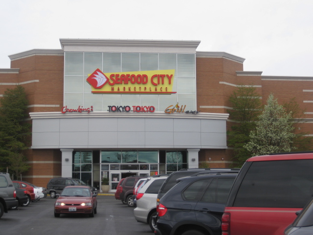 Seafood City in Tukwila, Washington, south of Seattle.